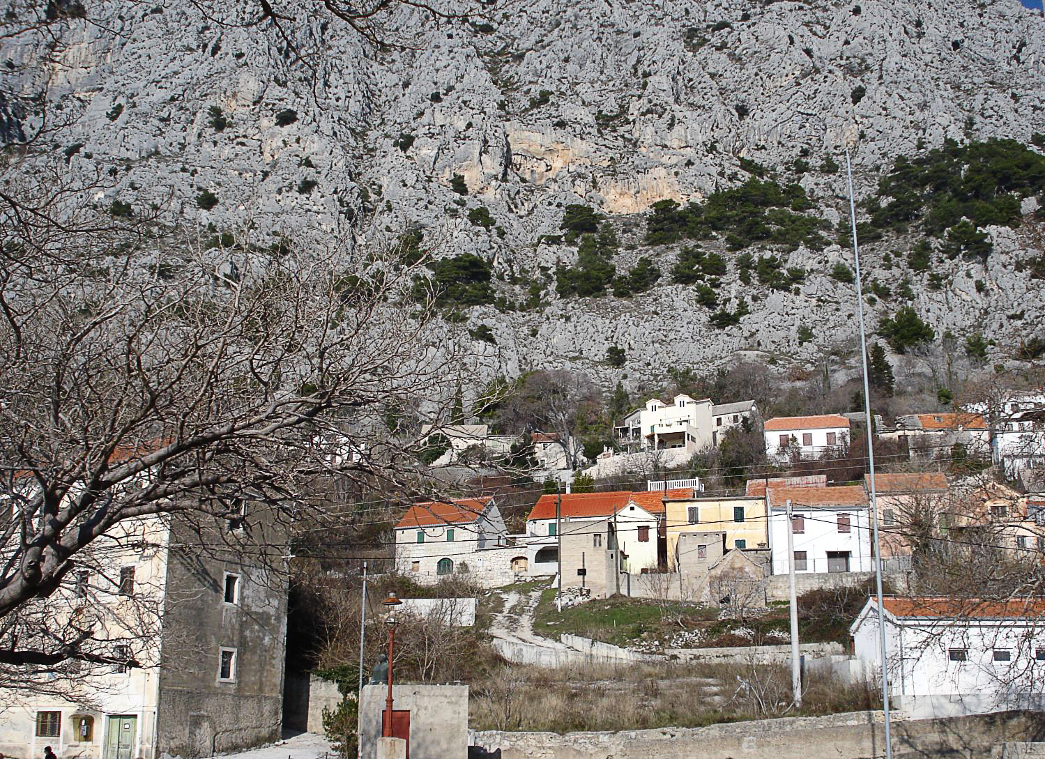 Lokva Rogoznica near Omiš, Croatia.